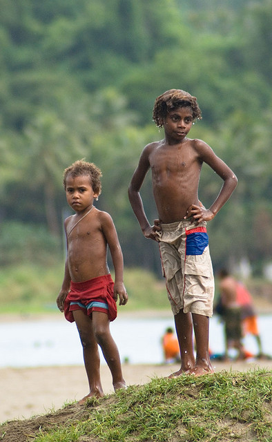 Two boys swimming, Vanuatu.